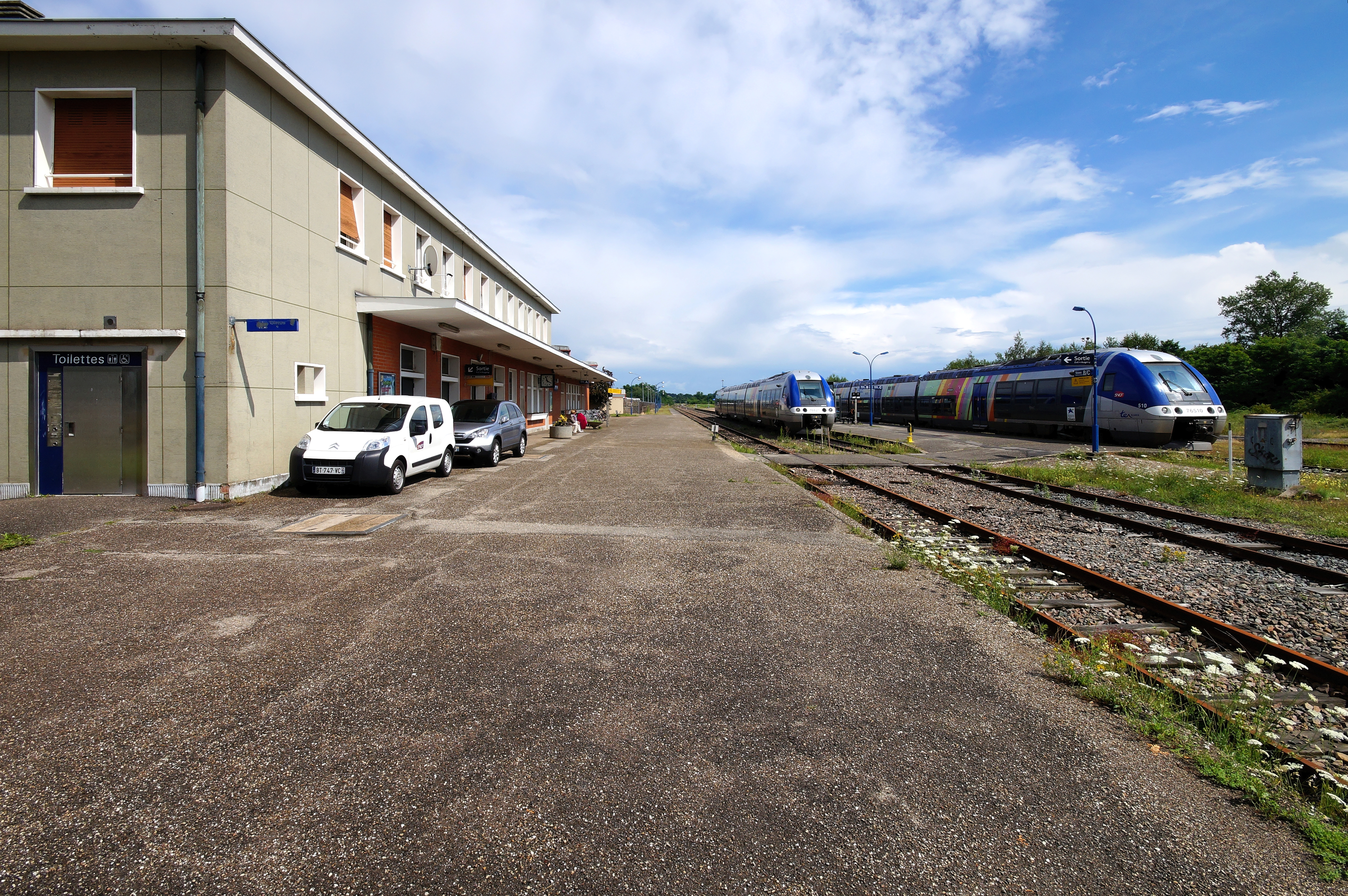 Platforms A B and C from Wissembourg (France) train station. Rail cars X 76621 and X 76510 on platforms B and C (en: SNCF Class X 76500).